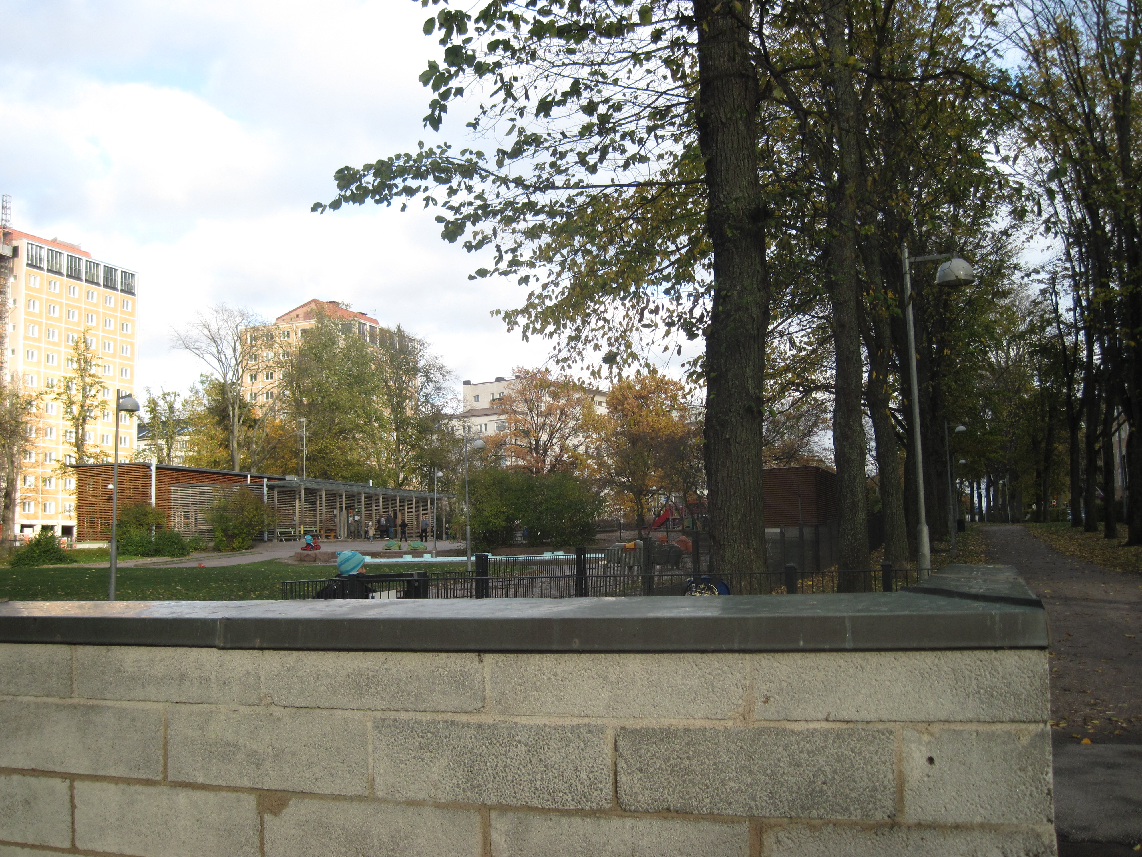 Hesperia Esplanade in Helsinki, as seen from Mechelininkatu